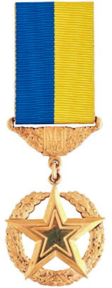 Order of the Golden Star. Ukraine